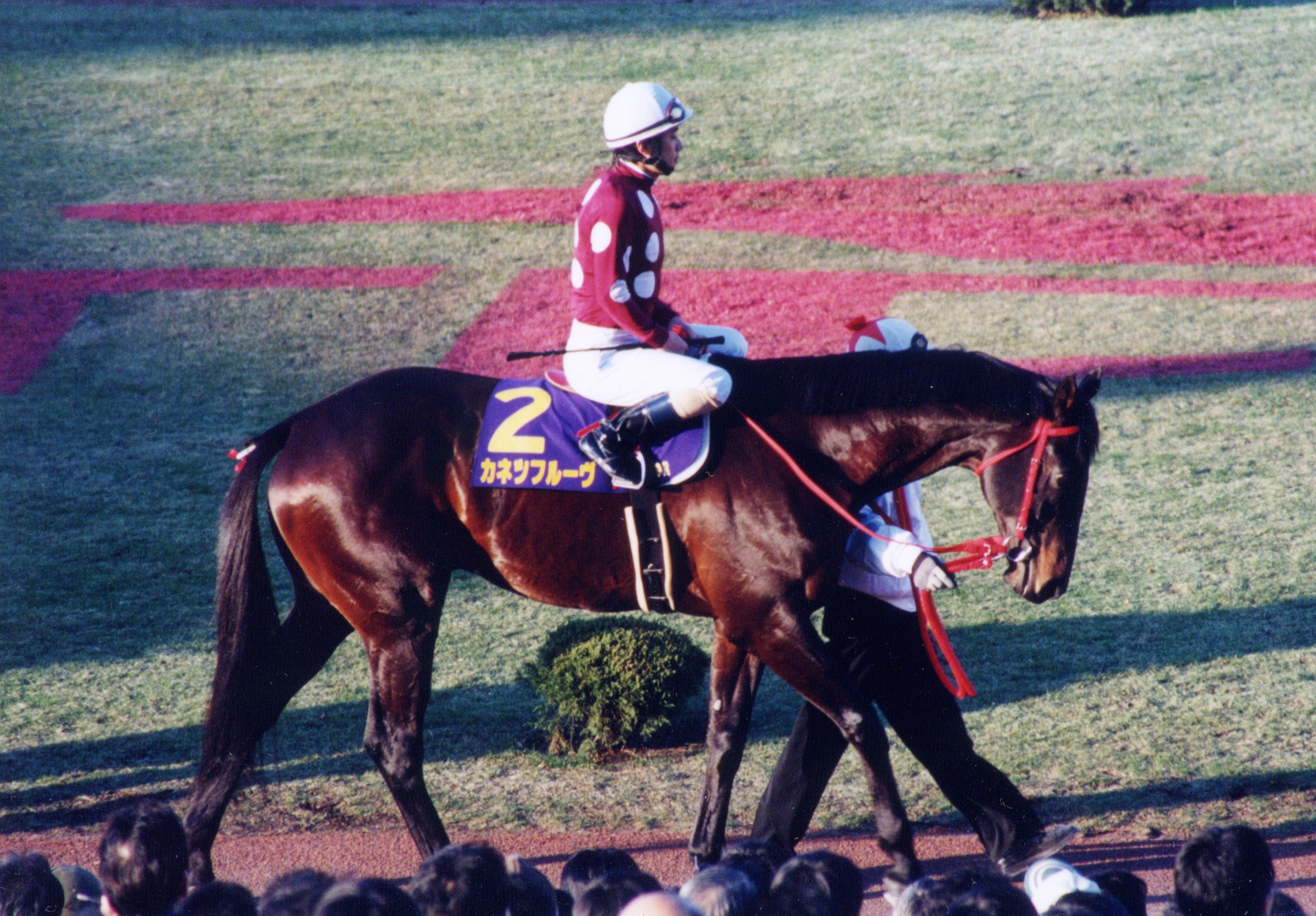 Kanetsu Fleuve